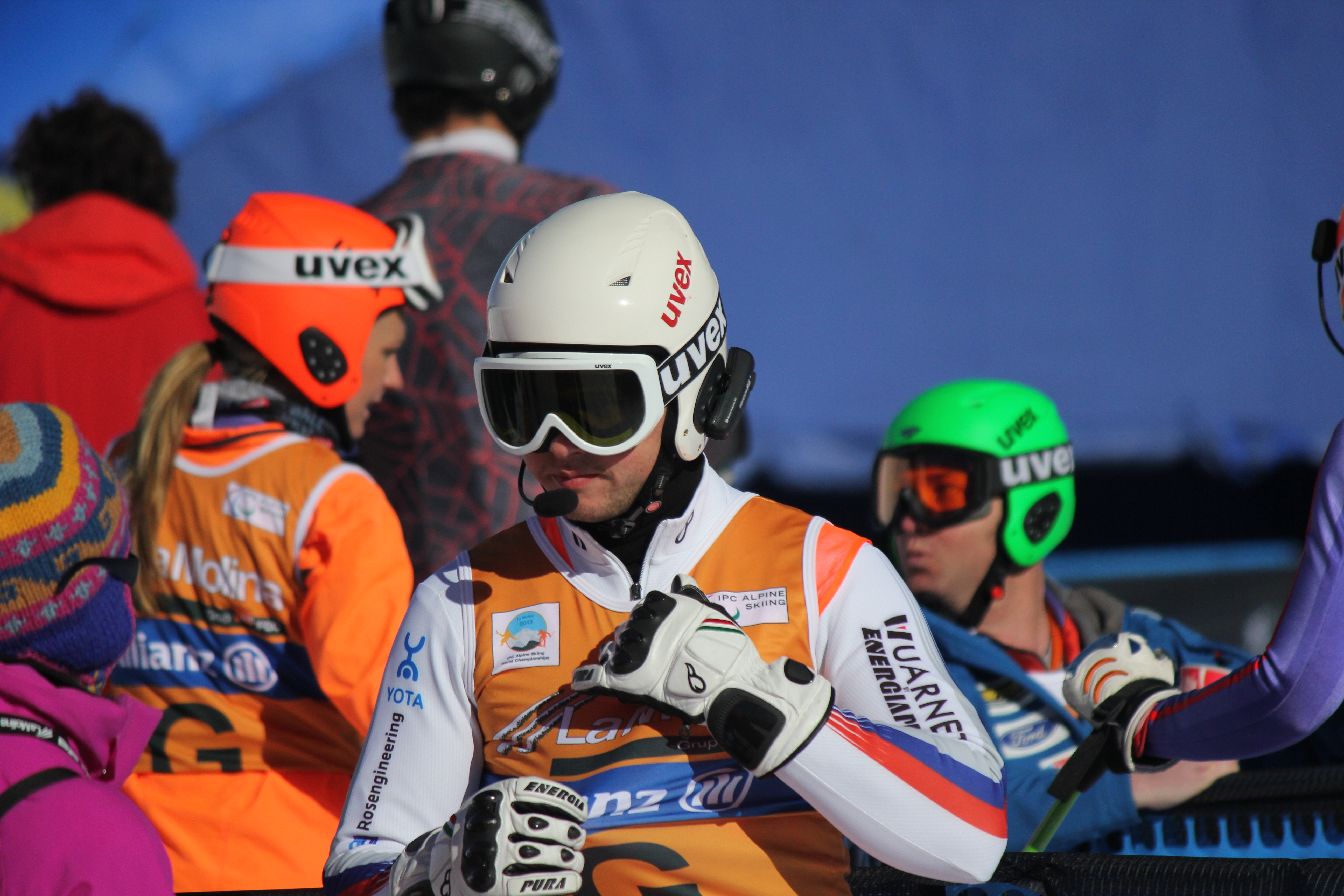 2013 IPC Alpine World Championships at La Molina in Spain. Day 2. Super-g final for women's visually impaired. Guide Charlotte Evans.